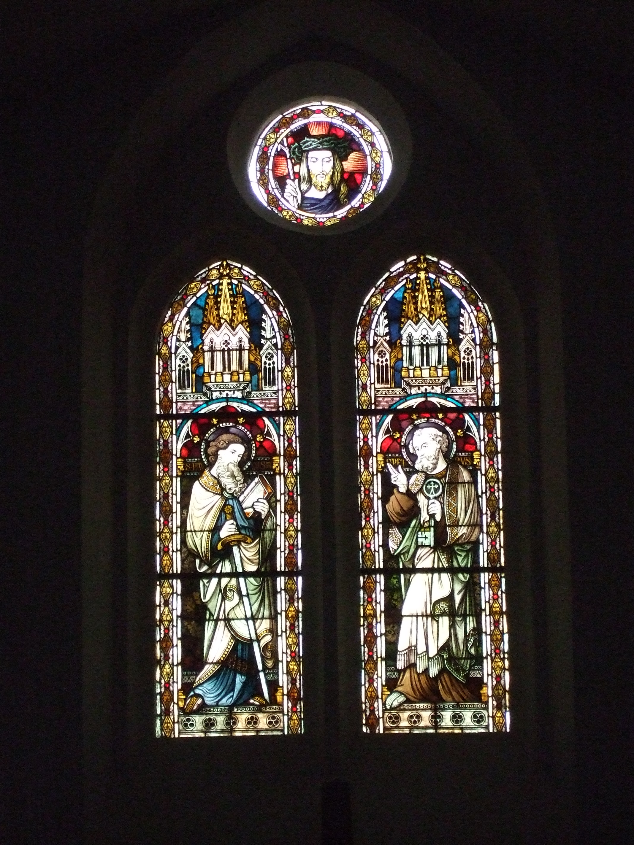 Church Wellerode Window